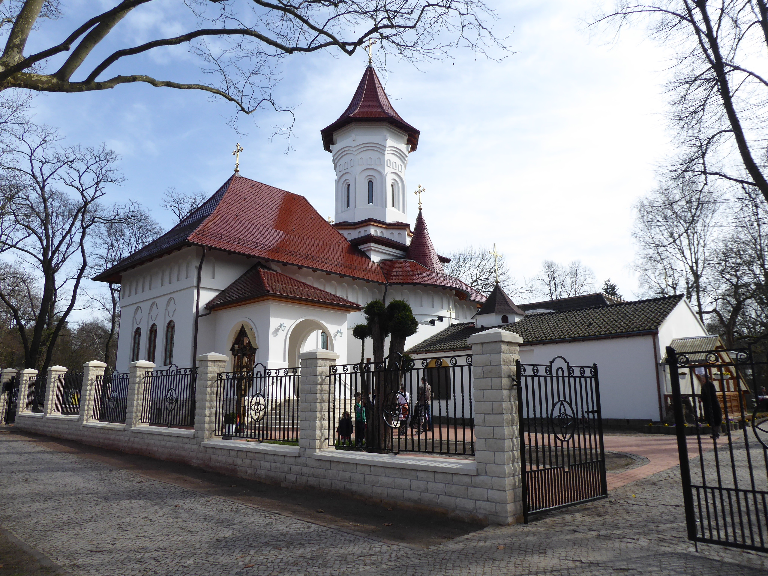 Rumänisch-orthodoxe Kirche Heilige Erzengel Mihail und Gavriil (Berlin-Westend)